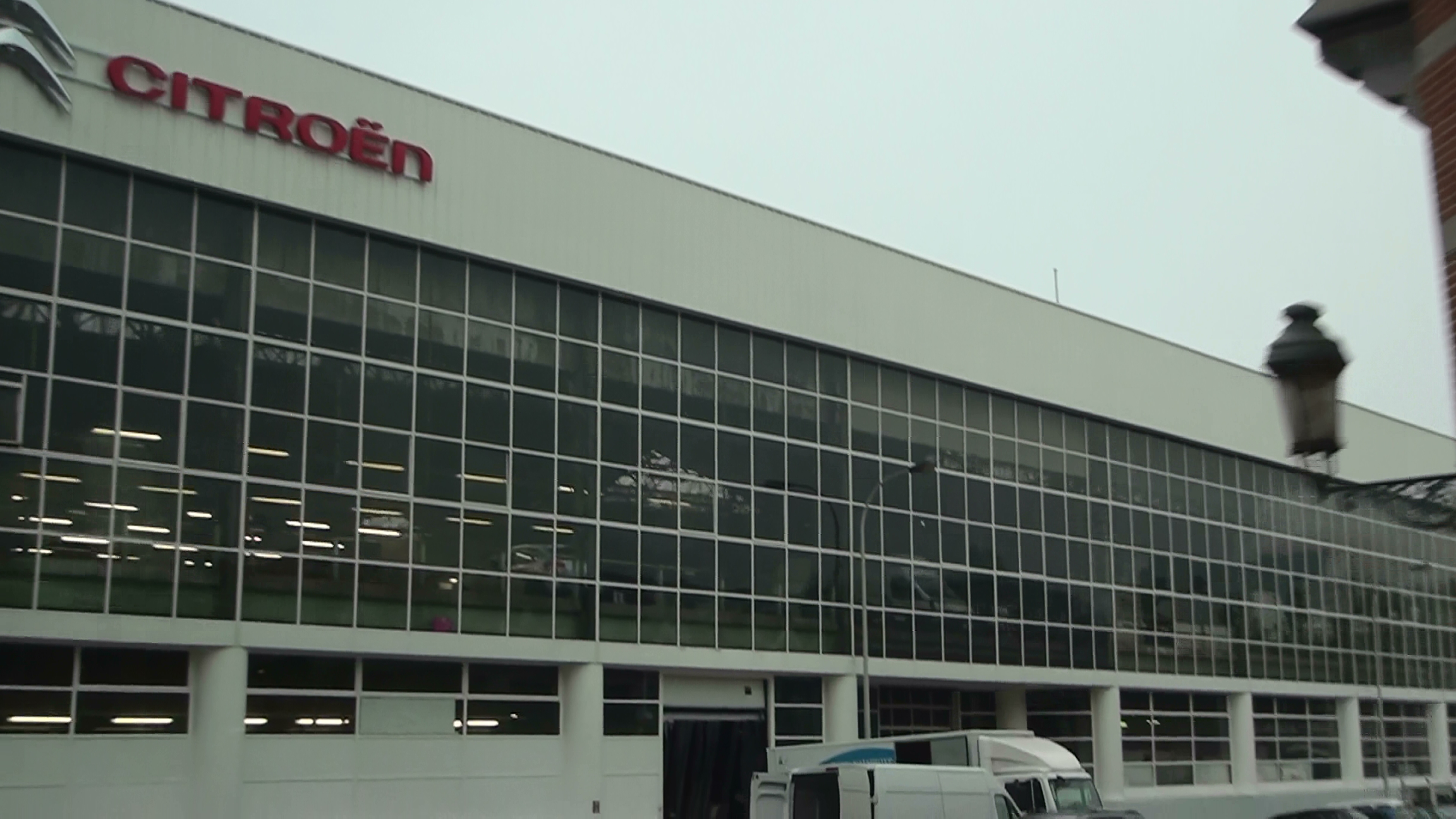 Brussels, Belgium